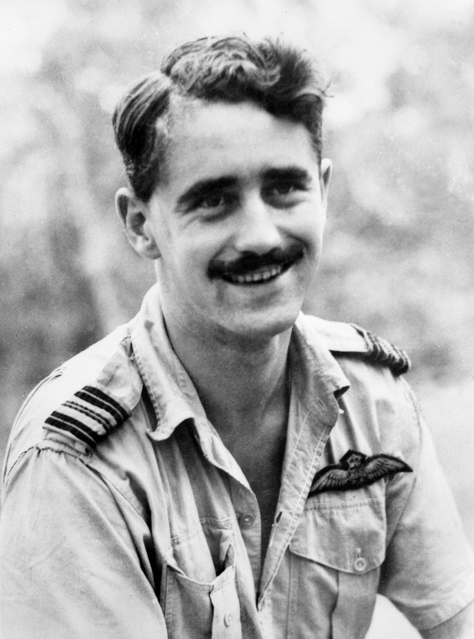 Australia: Northern Territory, Darwin. Informal portrait of Squadron Leader Richard (Dick) Charles Cresswell, Commanding Officer, No. 77 Squadron RAAF, who shot down a Japanese 'Betty' bomber aircraft during a night raid on Darwin on the 23 November 1942, and later the wreck and the bodies of the nine members of the crew were found.